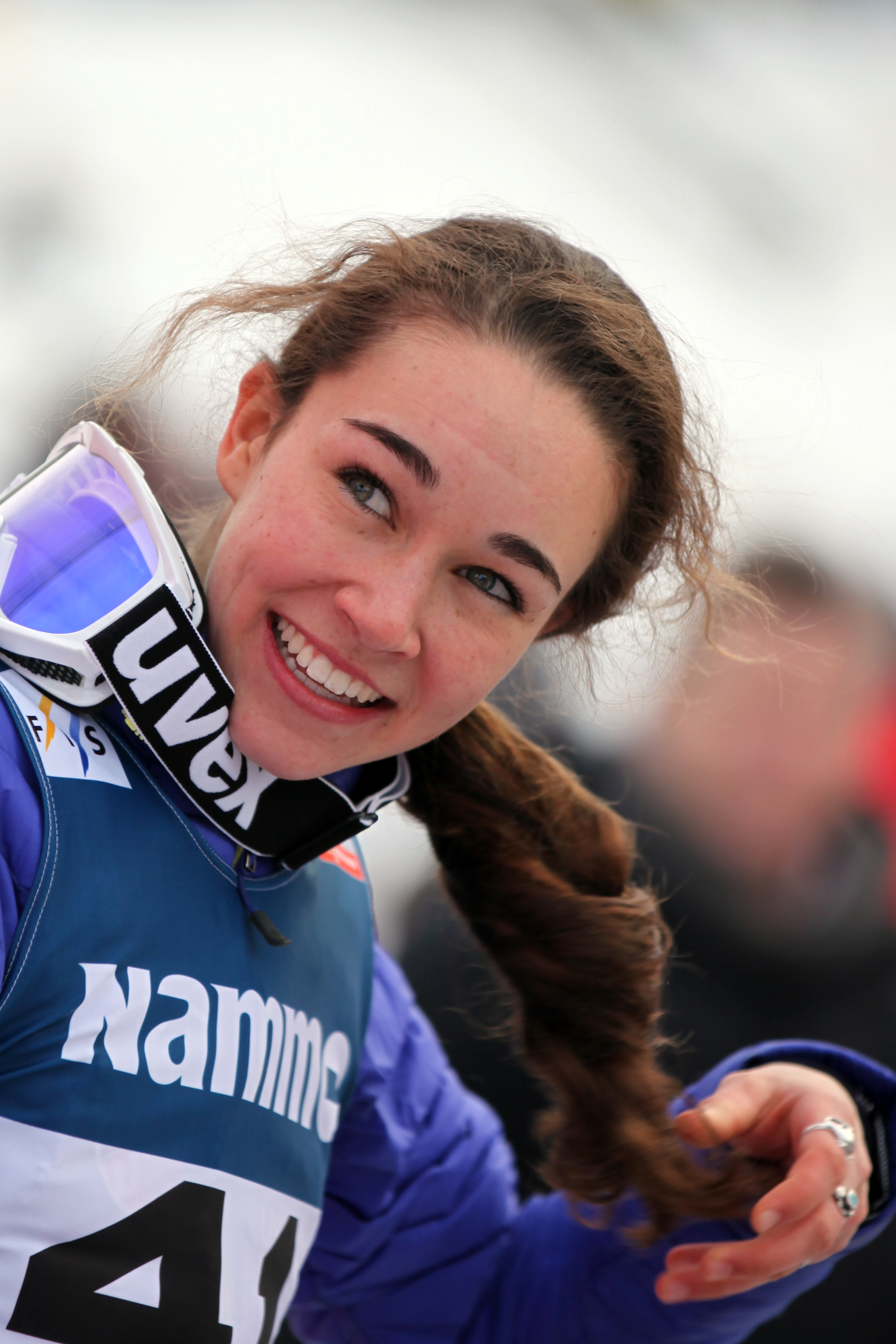 Sarah Hendrickson immediately after her gold medal jump at Hinterzarten, 2013